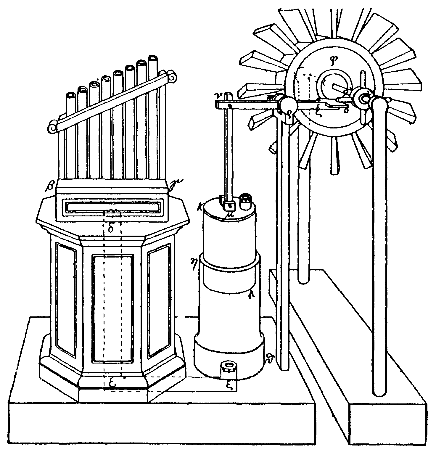 Modern reconstruction of wind organ and wind wheel of Heron of Alexandria (1st century AD) according to W. Schmidt: Herons von Alexandria Druckwerke und Automatentheater, Greek and German, 1899 (Heronis Alexandrini opera I, Reprint 1971), p. 205, fig. 44; cf. introduction p. XXXIX